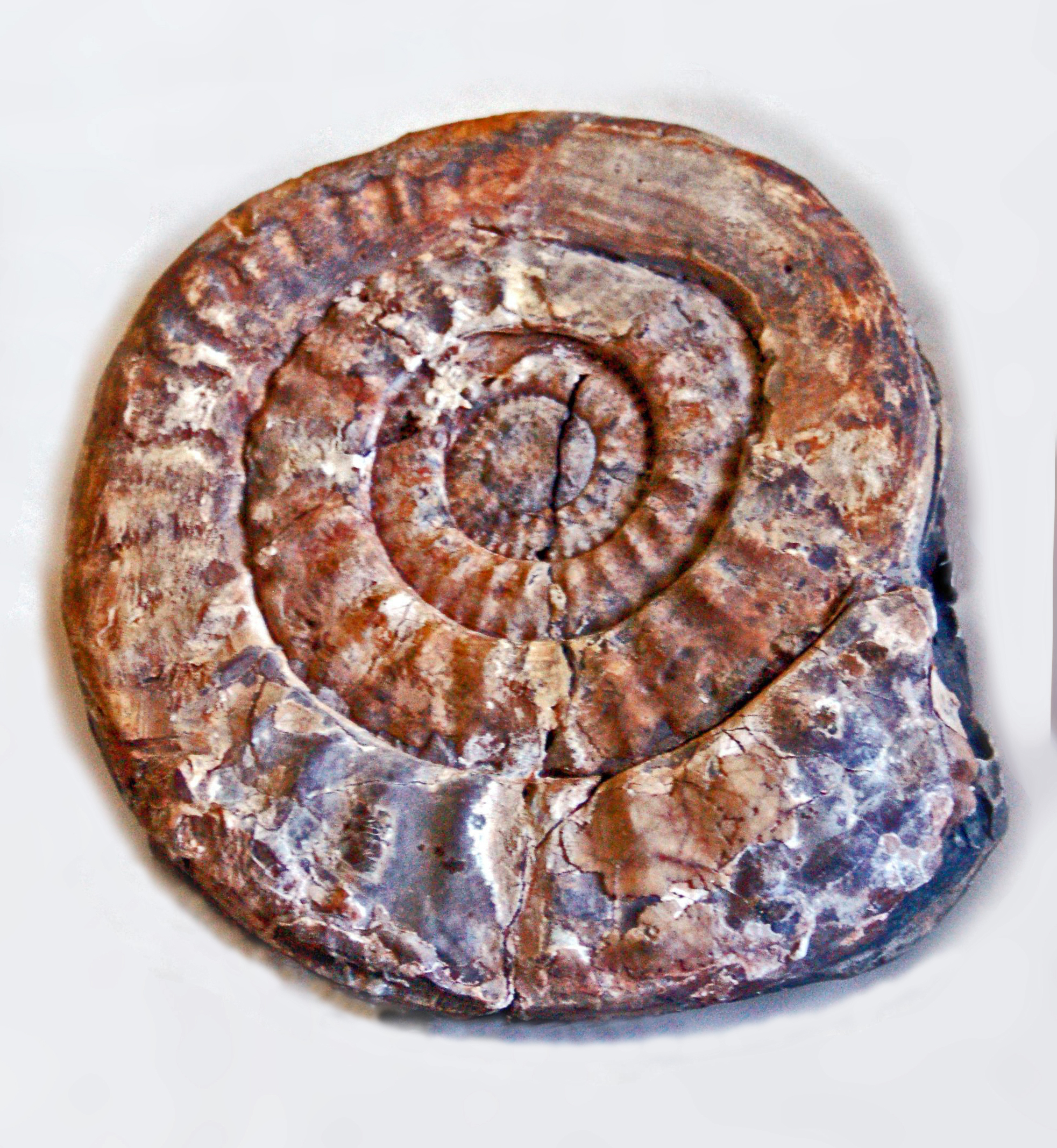 Peroniceras tricarinatum, from Brezno u Loun, Czech Republic, at the National Museum (Prague)